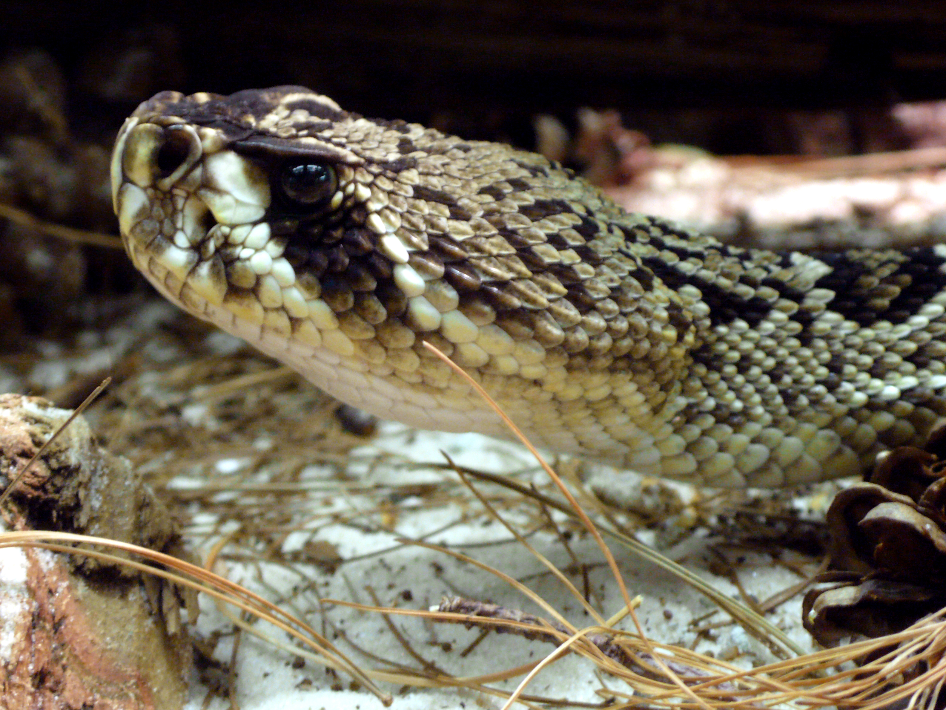 Eastern Diamondback Rattlesnake (Crotalus adamanteus)